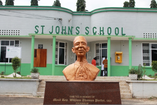 The administration block and the bust of Rev. William Thomas Porter(The founder of the school)